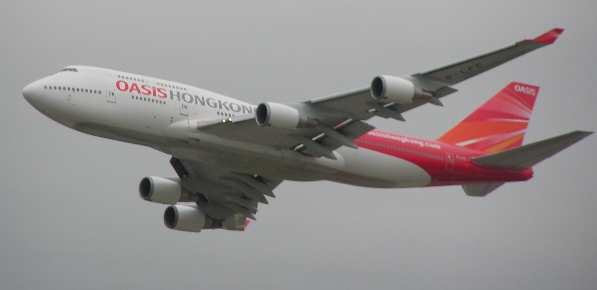 Oasis Hong Kong Airlines Boeing 747 paying a visit to the RIAT2007.